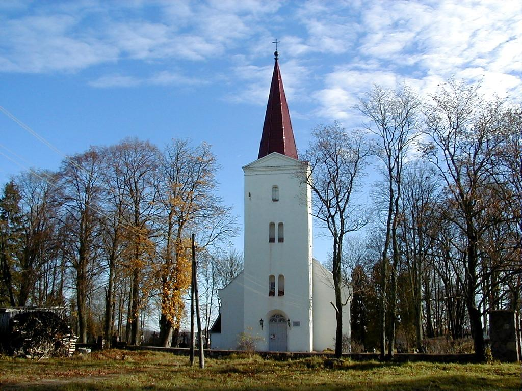 Kandava Evangelical Lutheran Church